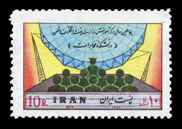 Stamp published by the Post of Iran in 1978 for 50th anniversary of the establishment of the Communication Institute (The core for K.N.Toosi University of Technology.)